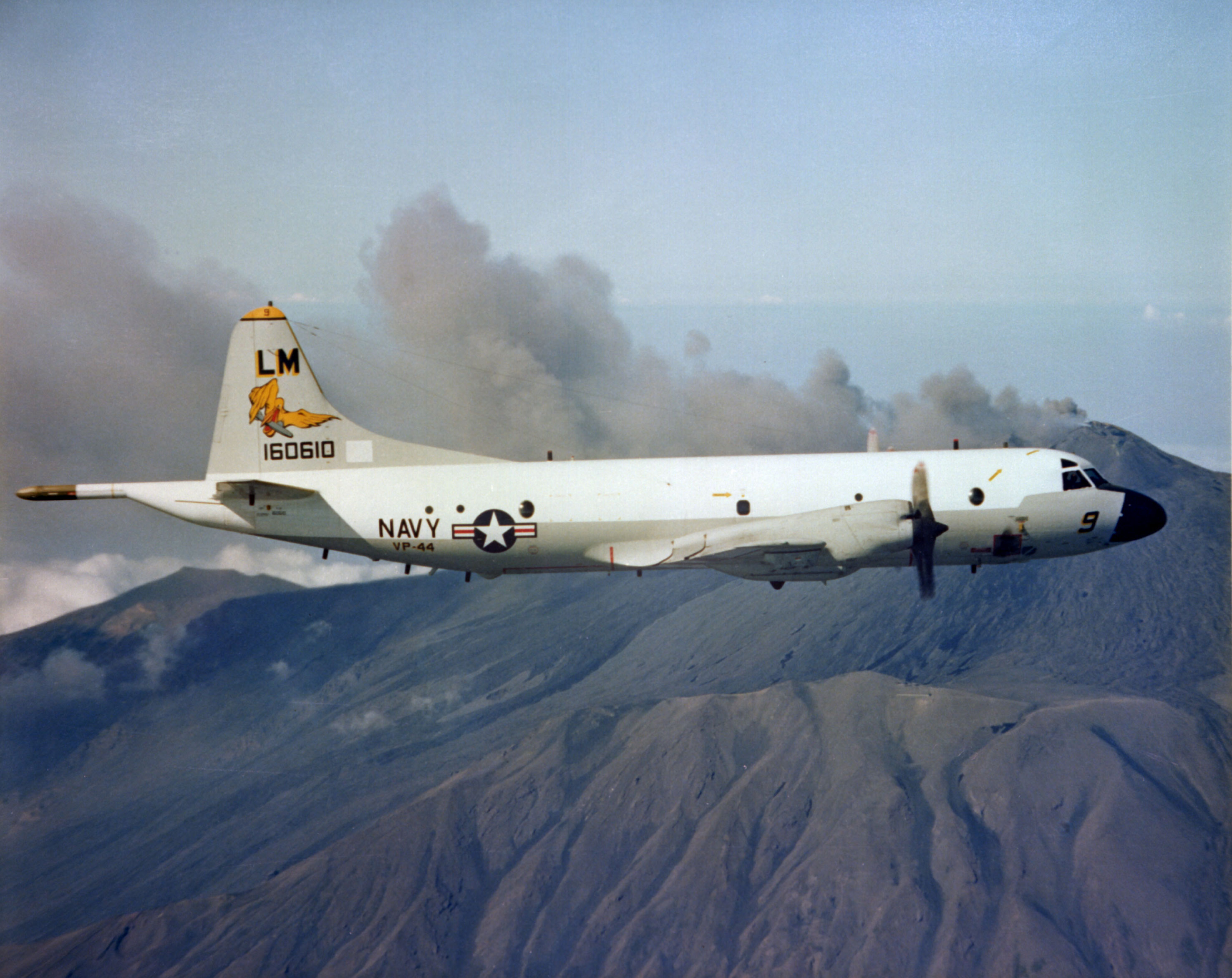 A U.S. Navy Lockheed P-3C Orion of Patrol Squadron VP-44 Golden Pelicans flying past Mount Etna, Italy, in the 1980s. The squadron was home based at Naval Air Station Brunswick, Maine (USA), and was forward deployed to NAS Signonella, Italy from 13 March to 15 August 1984.